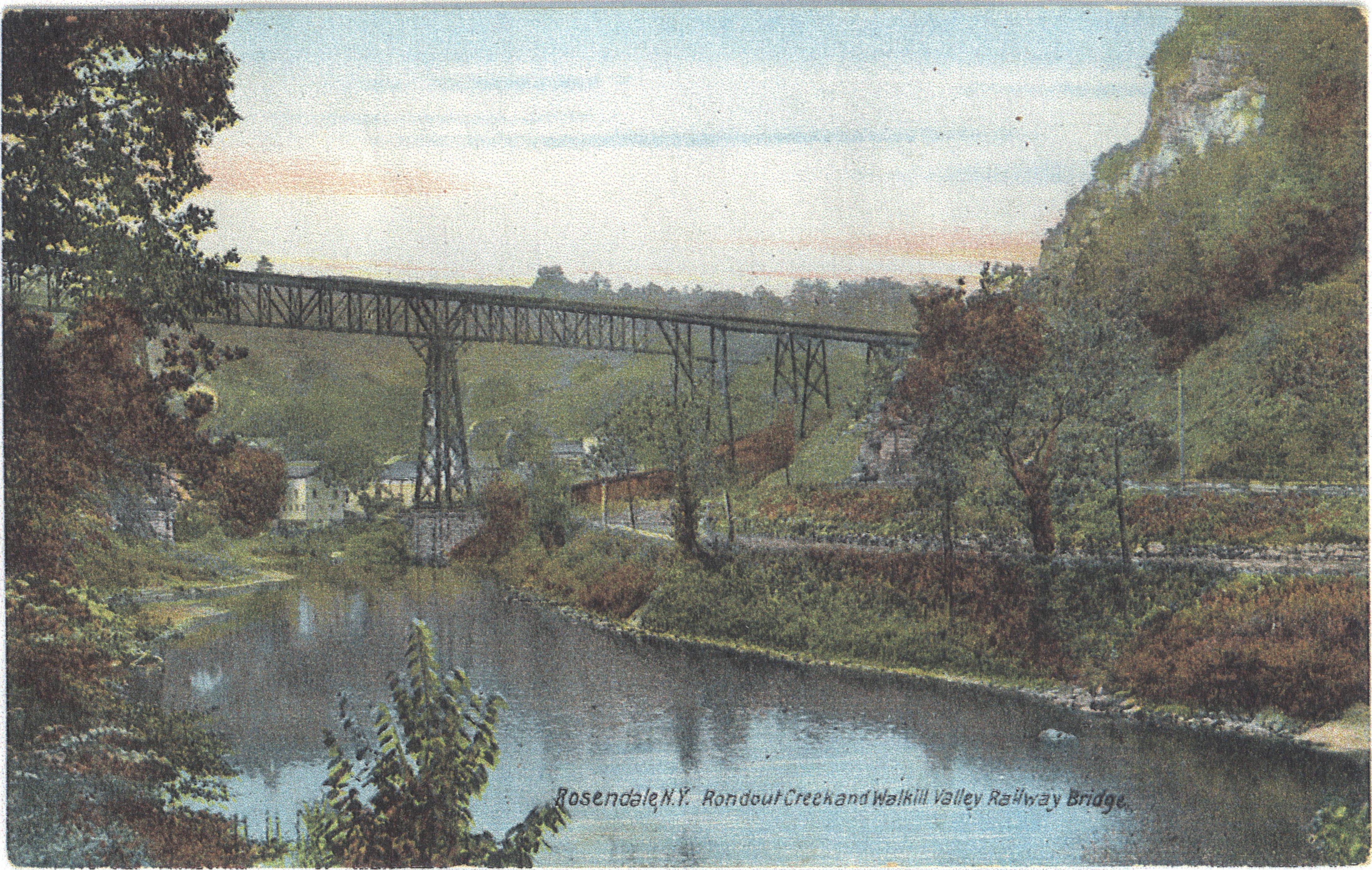 Scan of a postcard of the Rosendale railroad trestle and Rondout Creek in Rosendale, New York. The area under the trestle was known as "Dead Man's Curve".